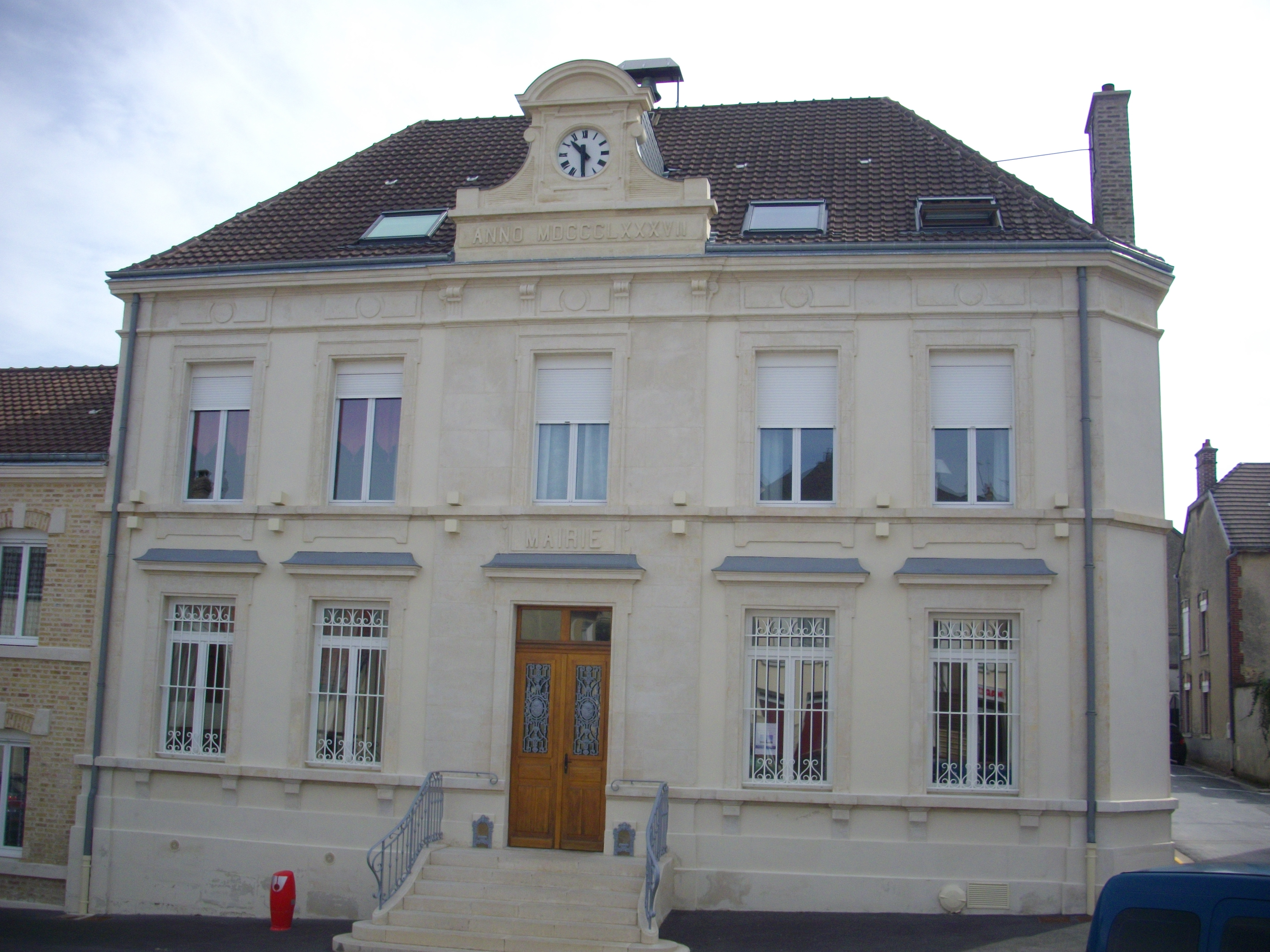 Town hall of Mailly-Champagne (Marne, France), built in 1887